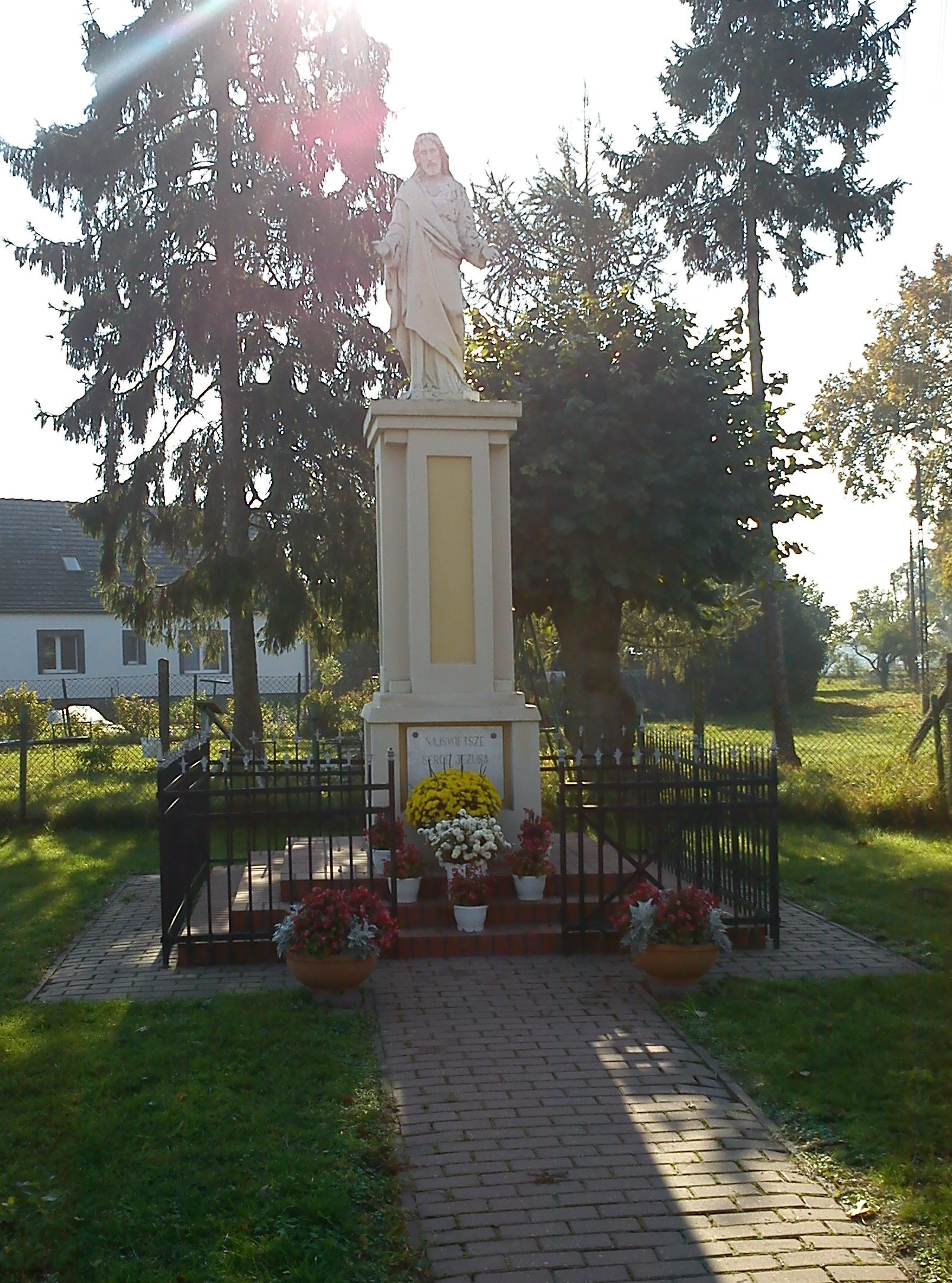 Figur of Jesus Christ in Grobia